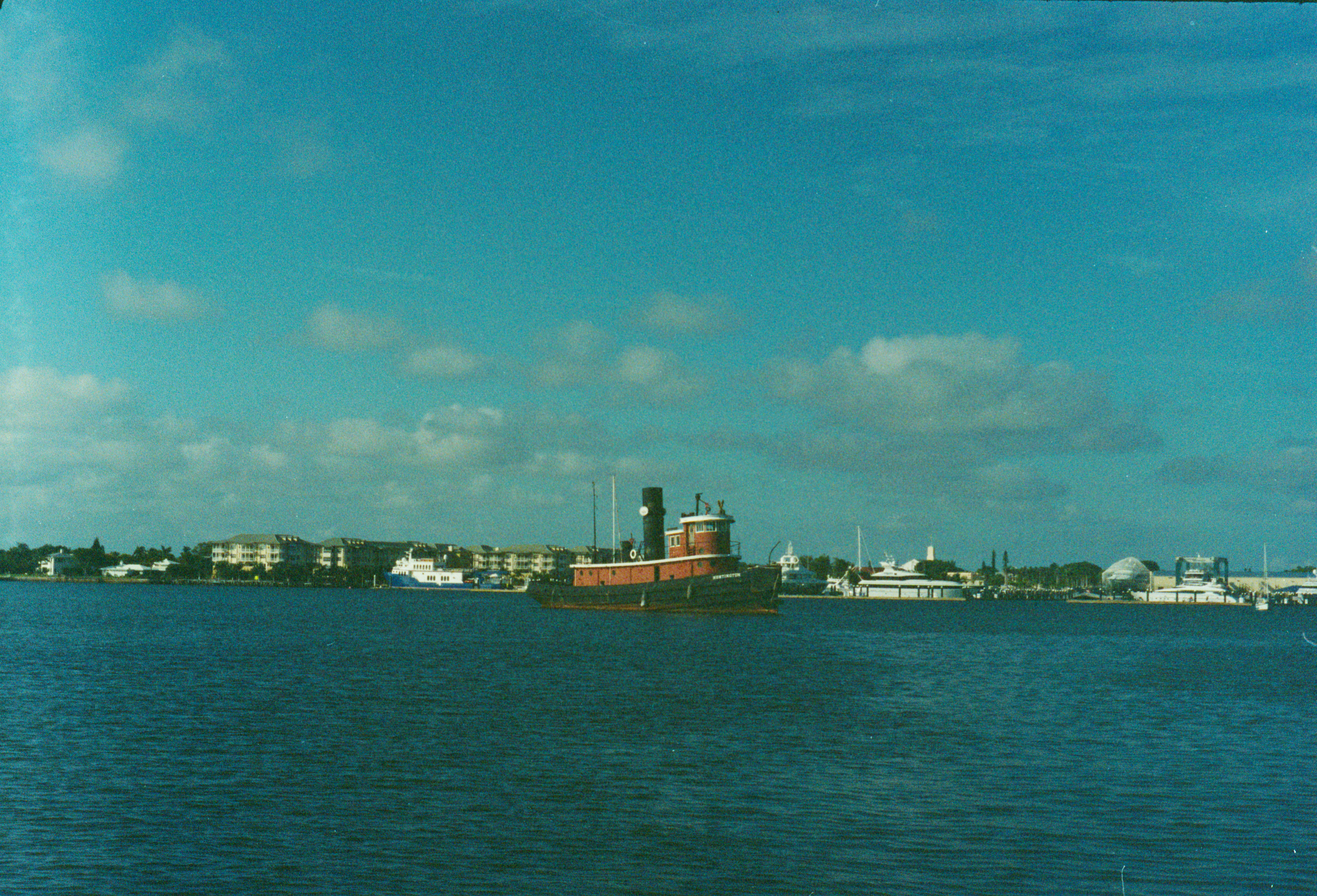 Tugboat Huntington anchored near Jupiter Florida. 2009. Scanned 35mm film negative.